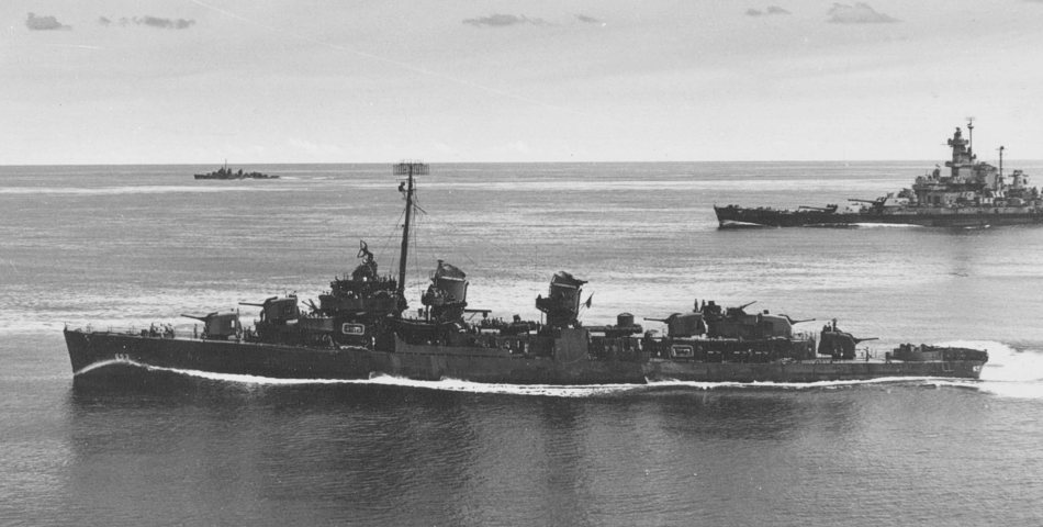 The U.S. Navy destroyer USS Knapp (DD-653) with Task Force 58.3, escorting the battleship USS Alabama (BB-60), 28 April 1944.